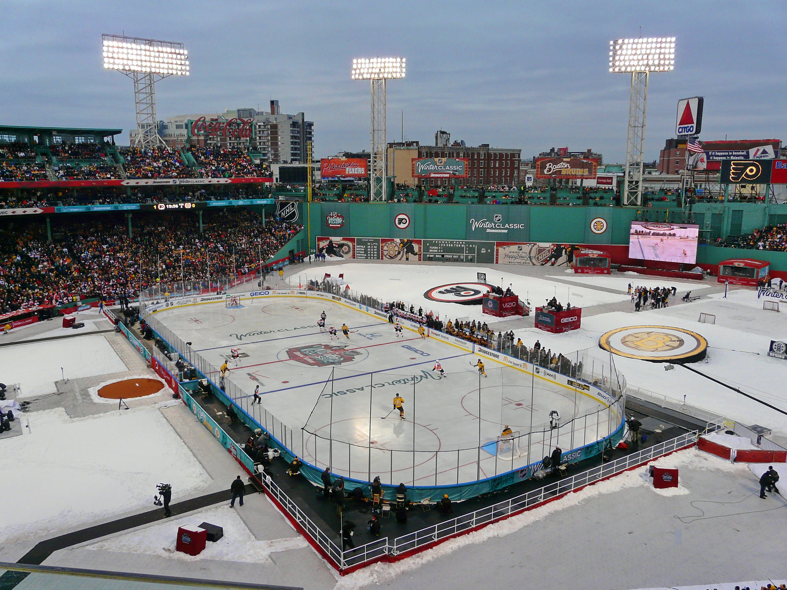 View of ice surface at the 2010 NHL Winter Classic